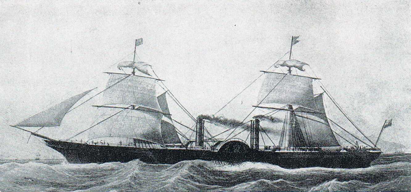 RMS Persia